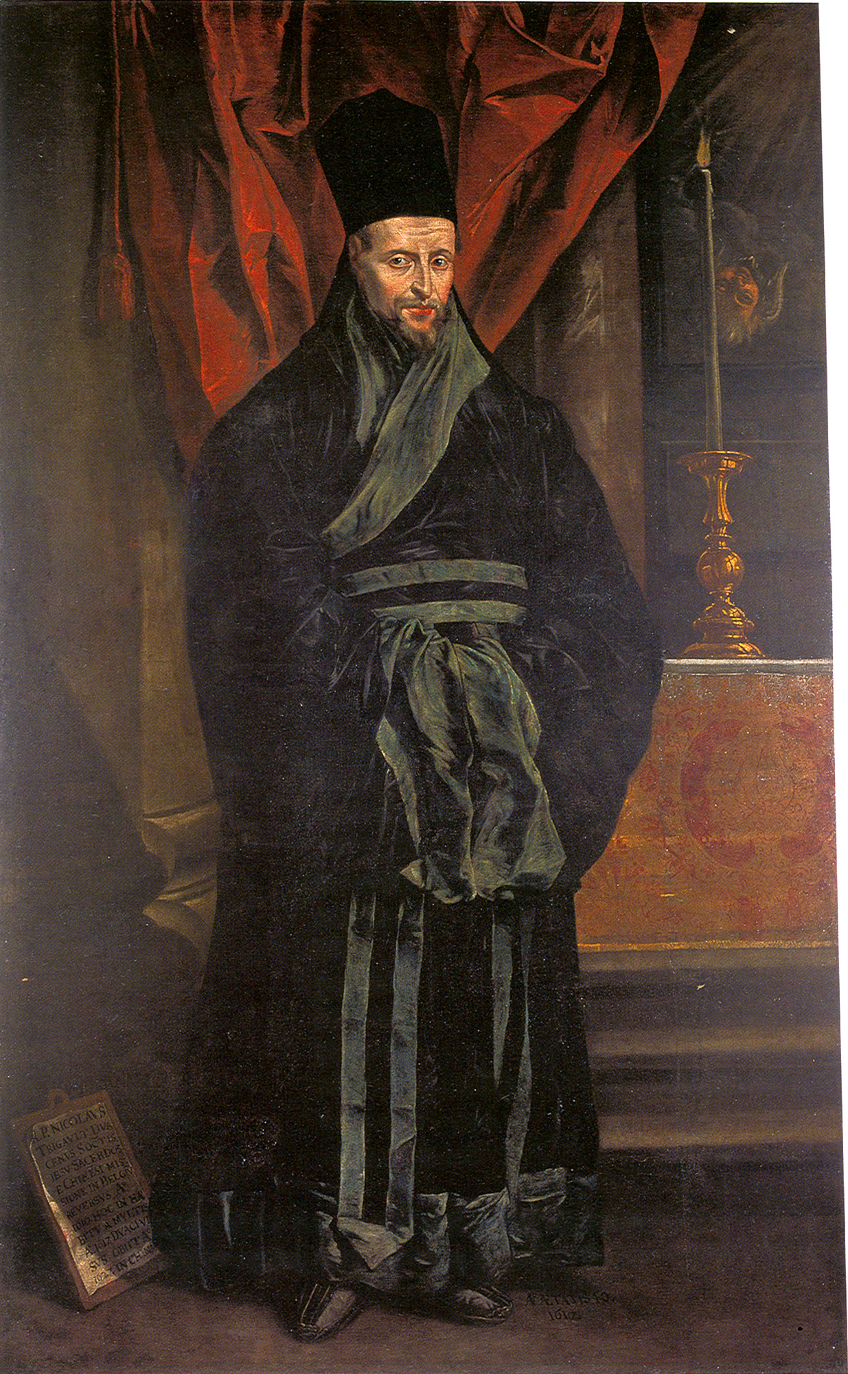 Portrait of Jesuit missionary Nicolas Trigault